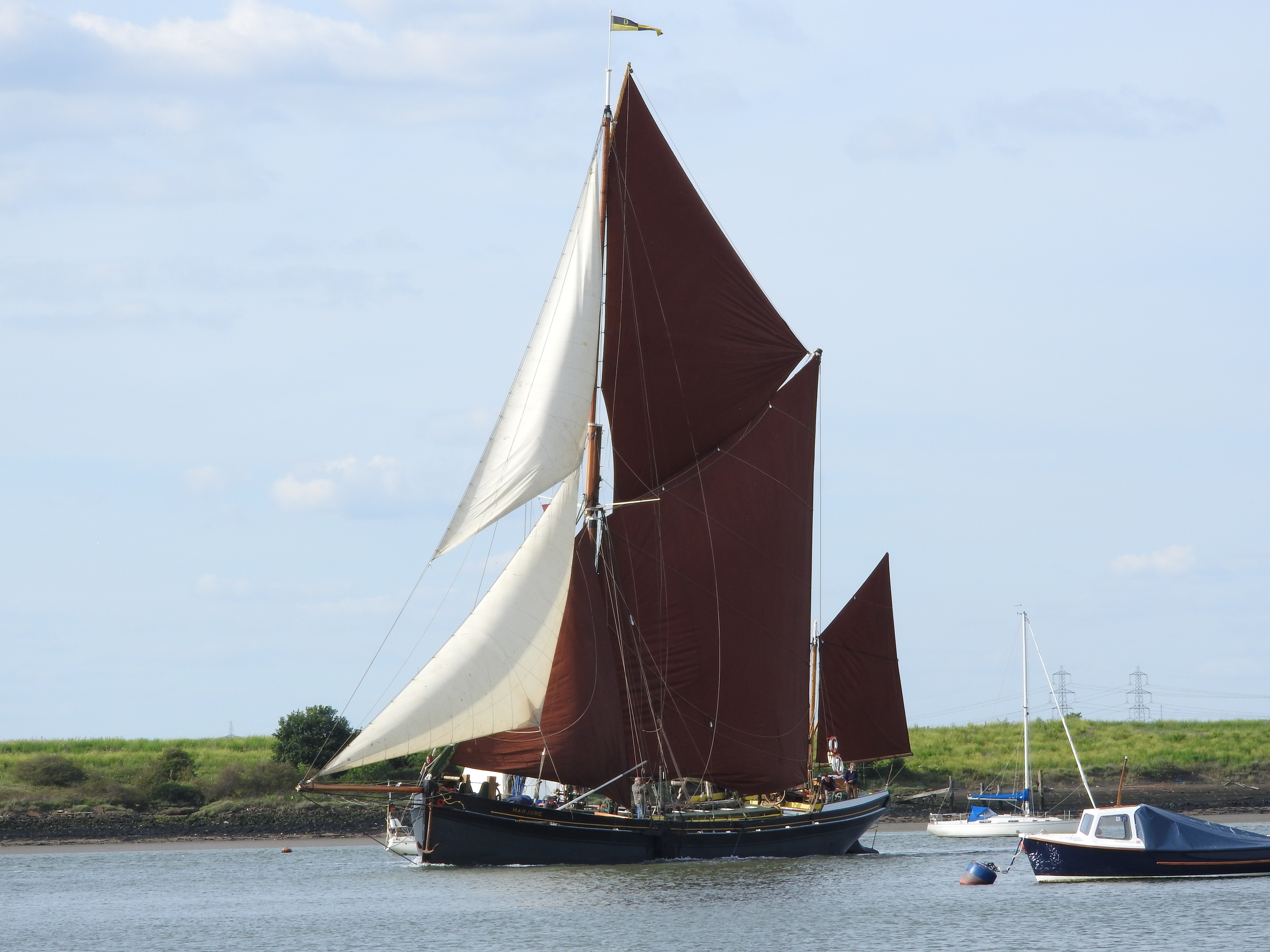 Barge competing in the 109th Medway Barge Sailing match, viewed from the shore at Gillingham Pier